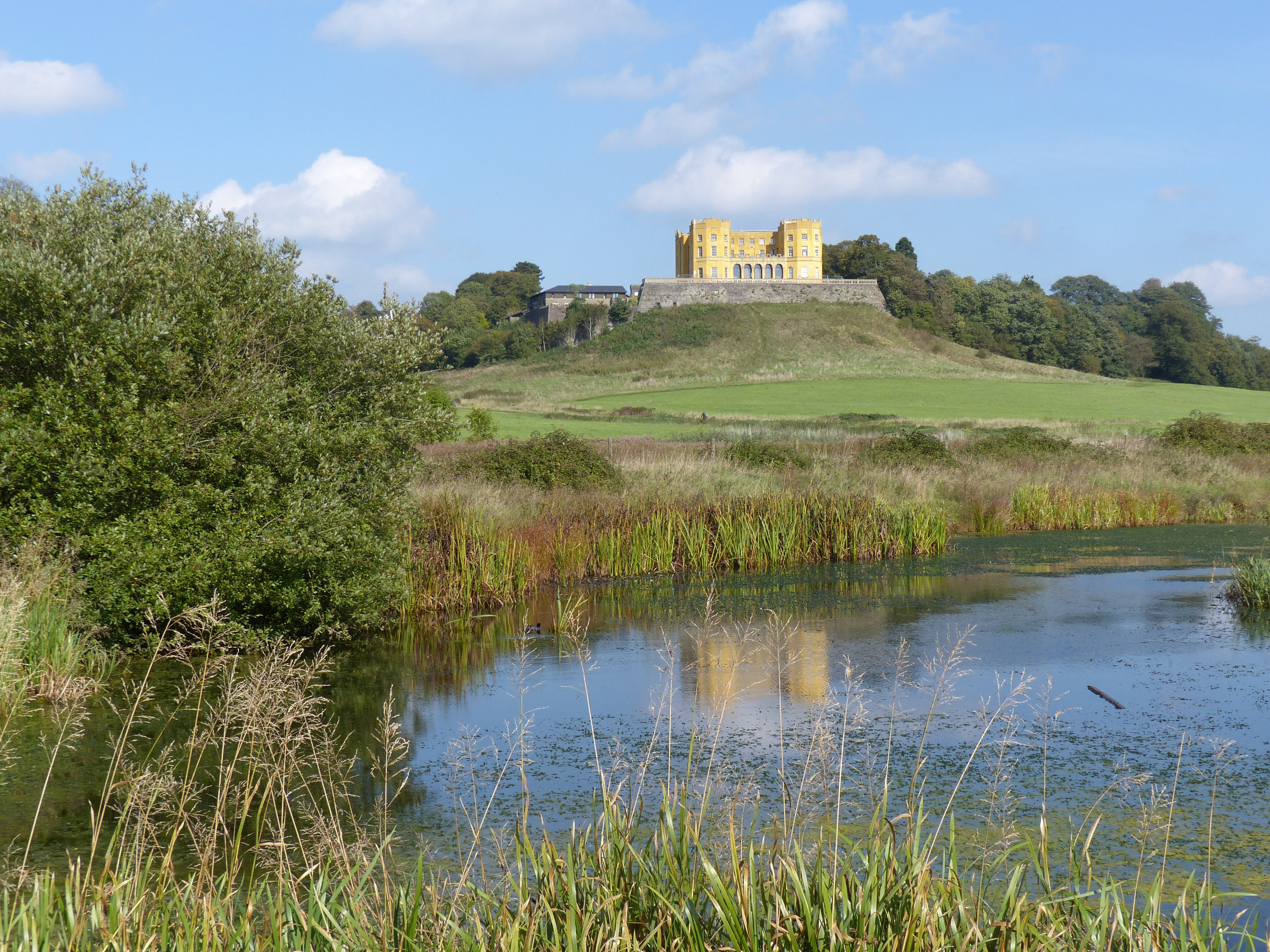 Duchess Pond and the Dower House, Stoke Park, Bristol, England. To give scale there is a cyclist in the centre of the picture.